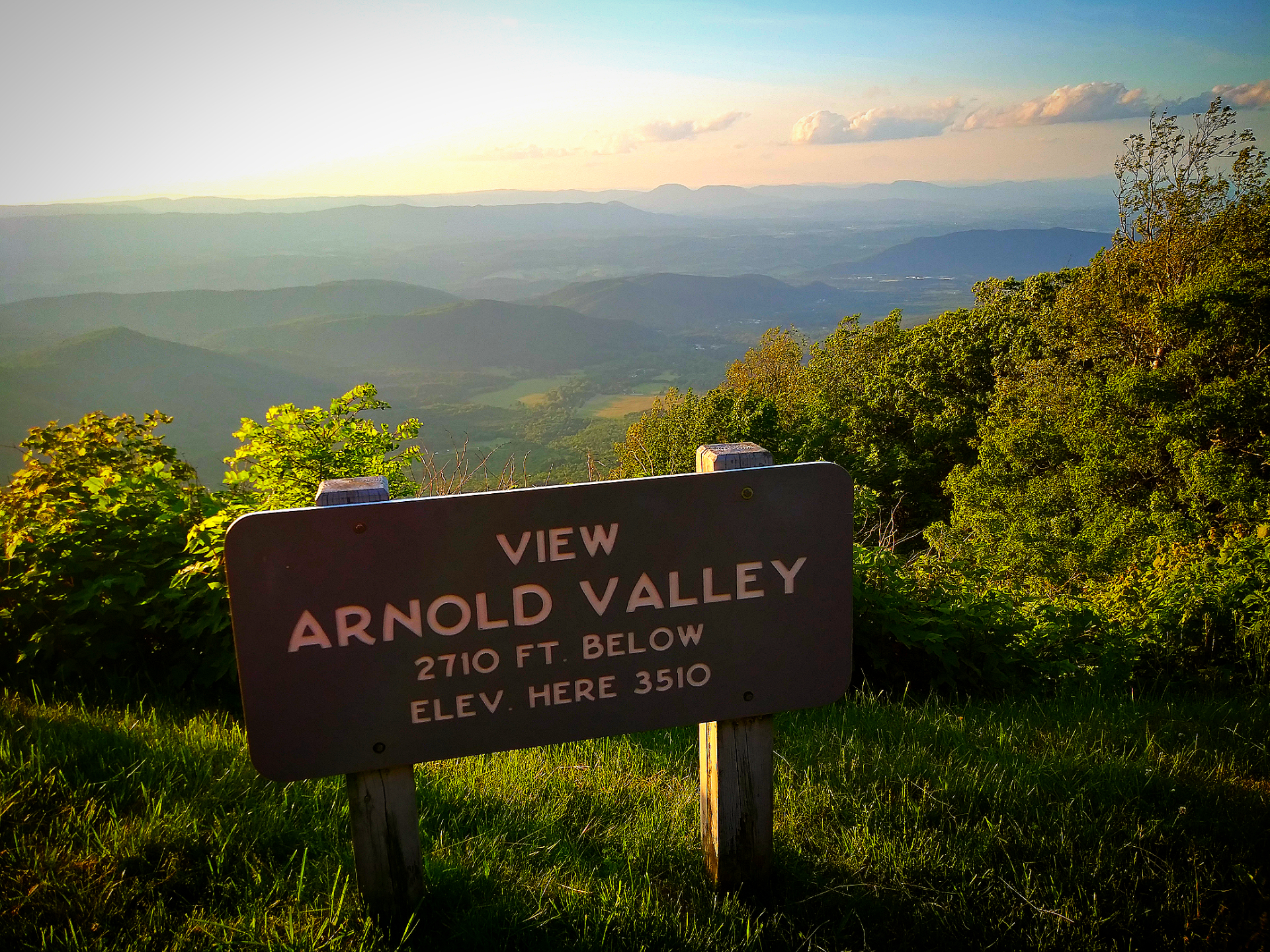 This is the southern Arnold Valley overlook at Thunder Ridge on the Blue Ridge Parkway.